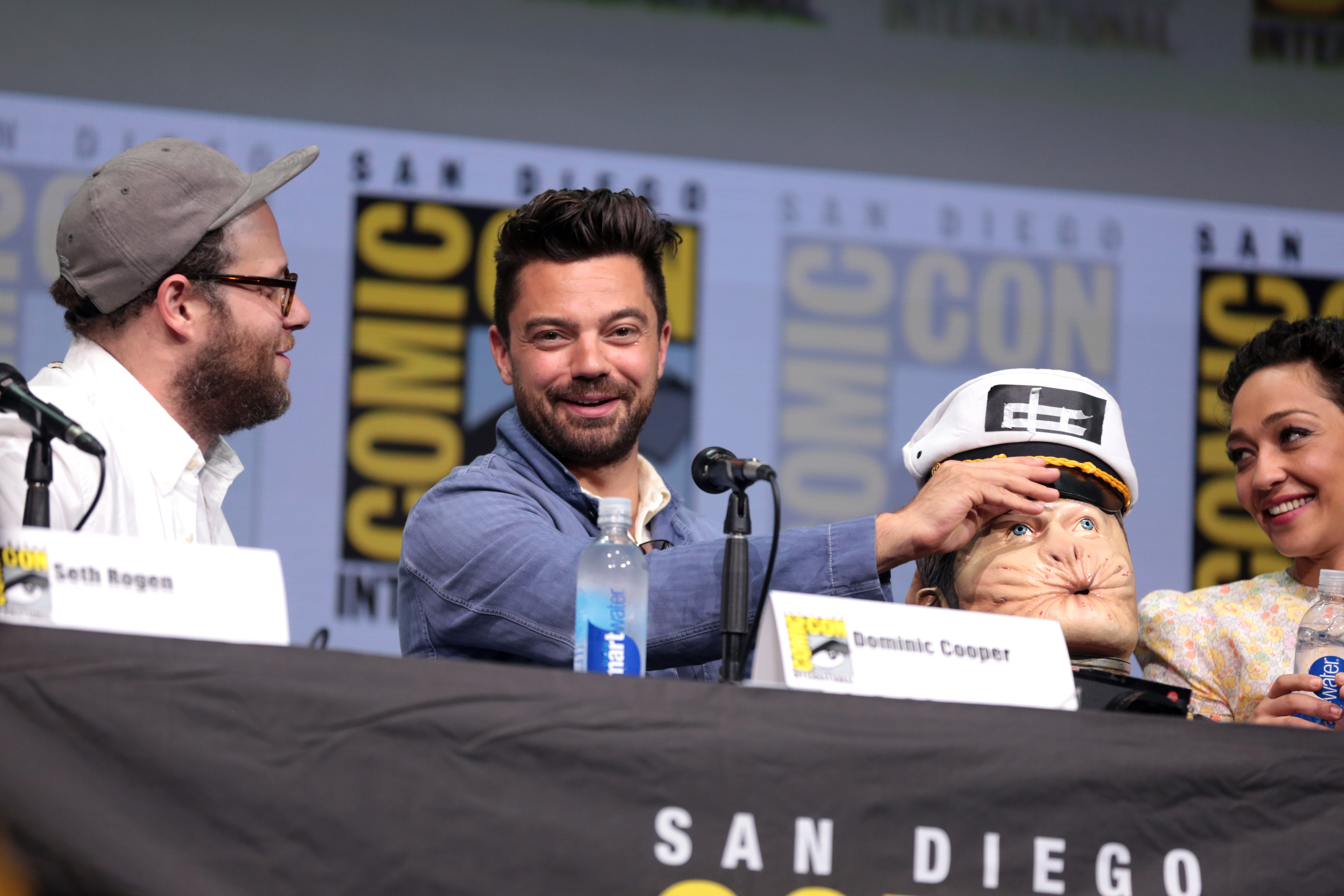 Seth Rogen, Dominic Cooper and Ruth Negga speaking at the 2017 San Diego Comic Con International, for "Preacher", at the San Diego Convention Center in San Diego, California.